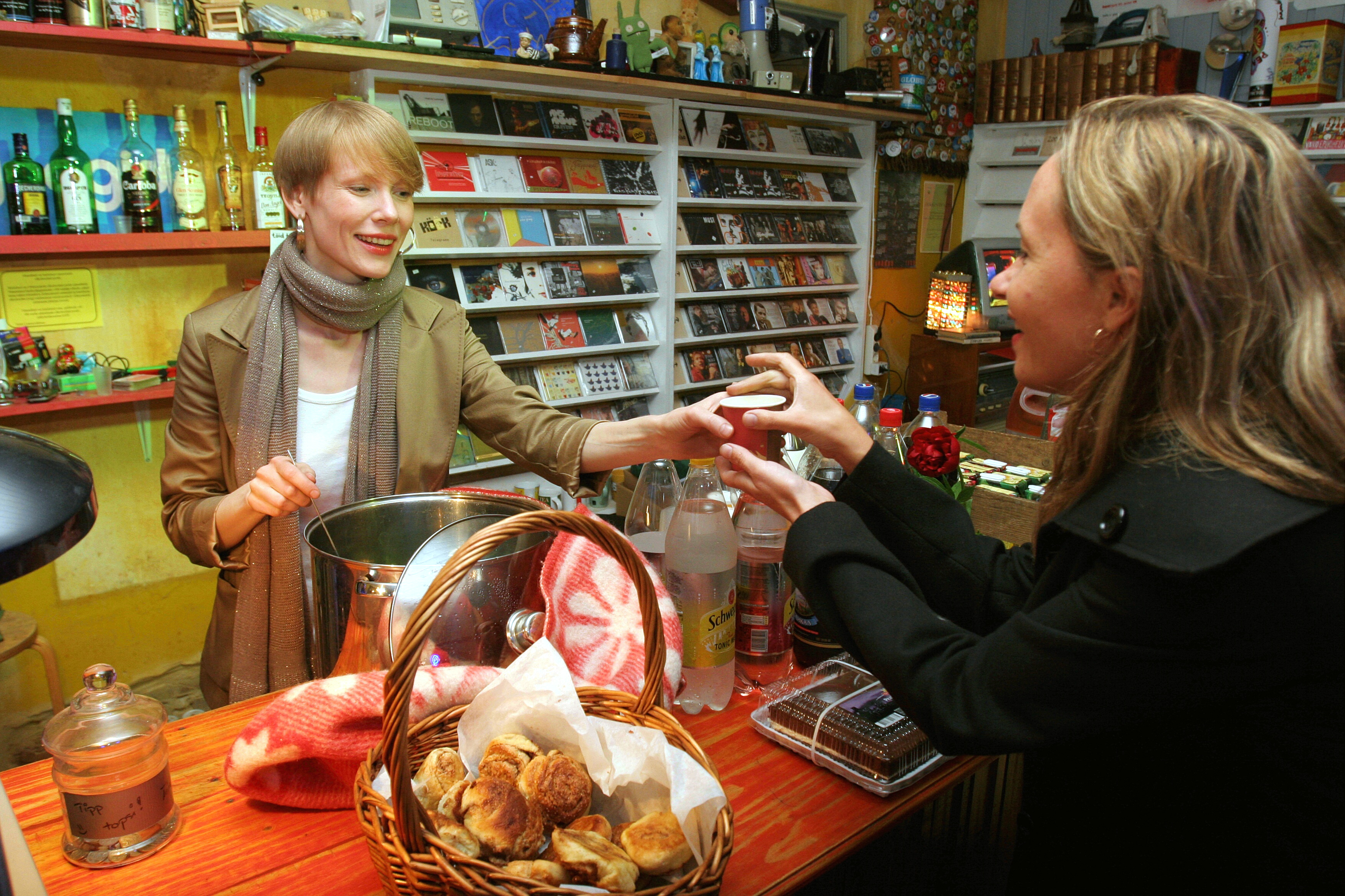 Estonian actor Maarja Jakobson.